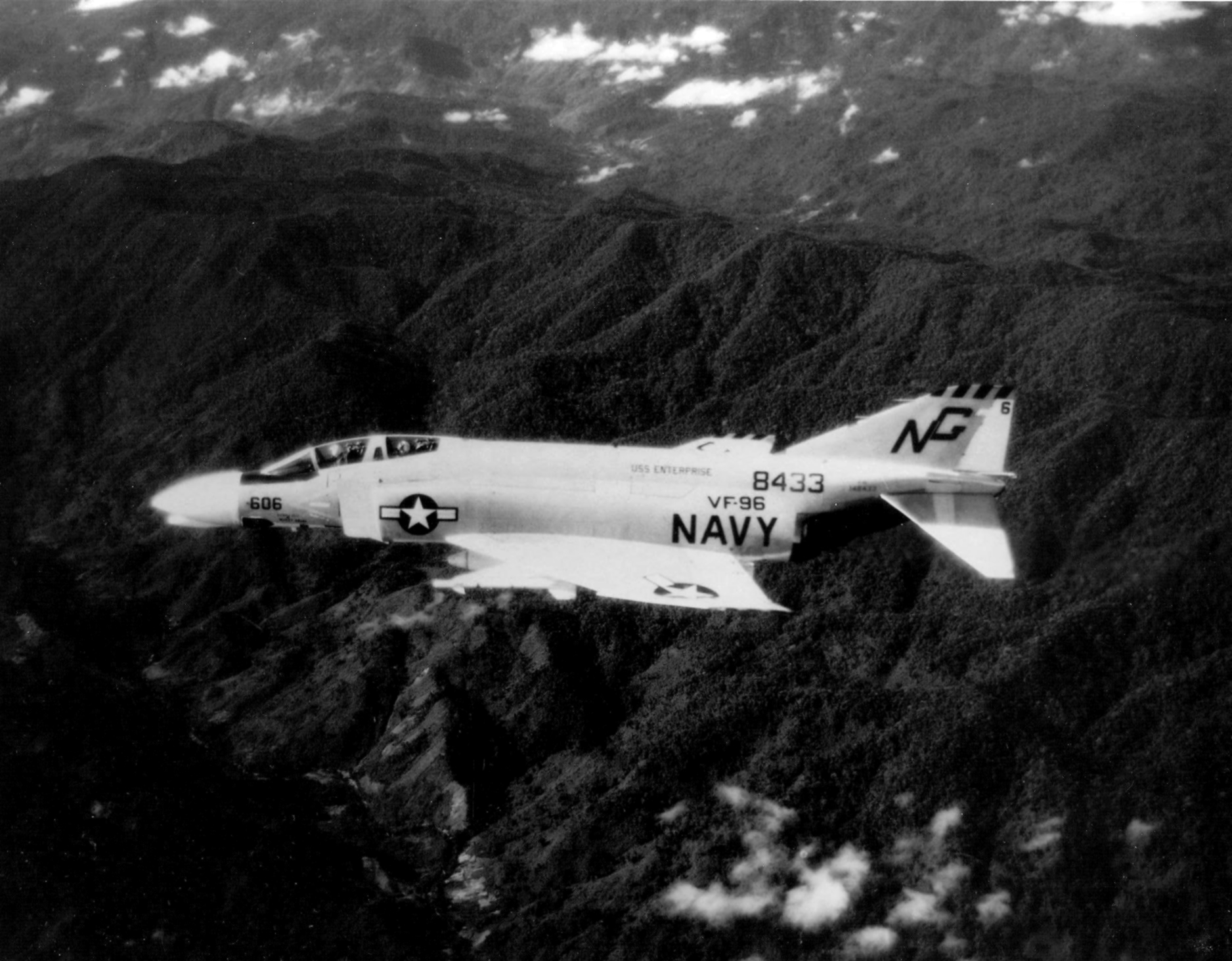 A U.S. Navy McDonnell F-4B-8-MC Phantom II (BuNo 148433) from Fighter Squadron VF-96 Fighting Falcons in flight over Laos. VF-96 was assigned to Carrier Air Wing 9 (CVW-9) aboard the aircraft carrier USS Enterprise (CVAN-65) for a deployment to Vietnam from 26 October 1965 to 21 June 1966. On 14 December 1964, operations in Laos named "Operation Barrel Roll" commenced, continuing with intermittent breaks until 29 March 1973. The U.S. Navy Task Force 77 joined USAF 2nd Air Division (later 7th Air Force) in covert air interdiction of the Ho Chi Minh Trail in Laos. The operation became increasingly involved in providing close air support missions for Royal Lao Armed Forces, CIA-backed tribal mercenaries, and Thai "volunteers" in a covert ground war in northern and northeastern Laos.